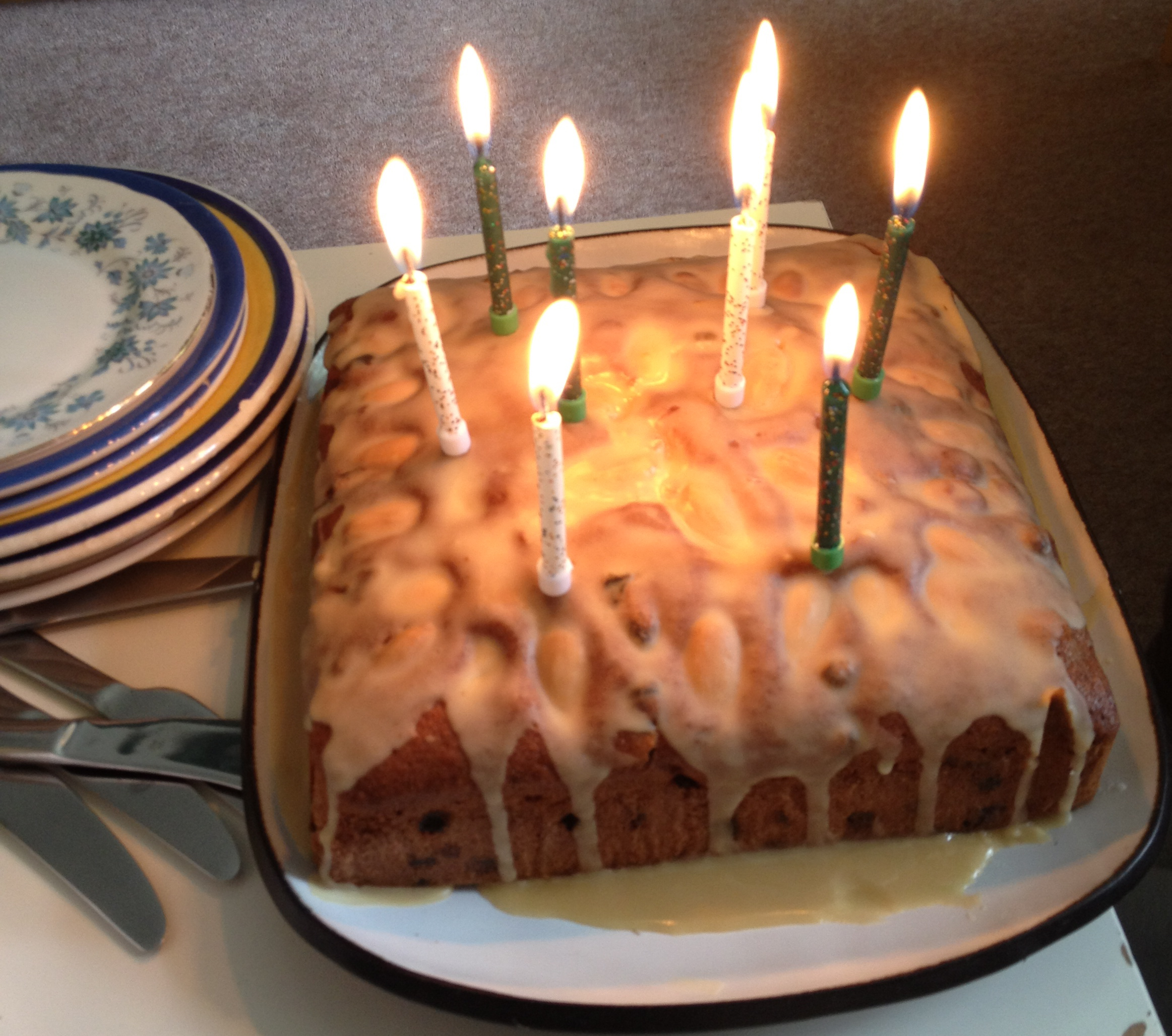 Birthday cake made by adding icing and candles to a Dundee Cake. (Dundee cake is a famous traditional Scottish fruit cake with a rich flavour but is normally topped with a simple ring of almonds and not icing.)